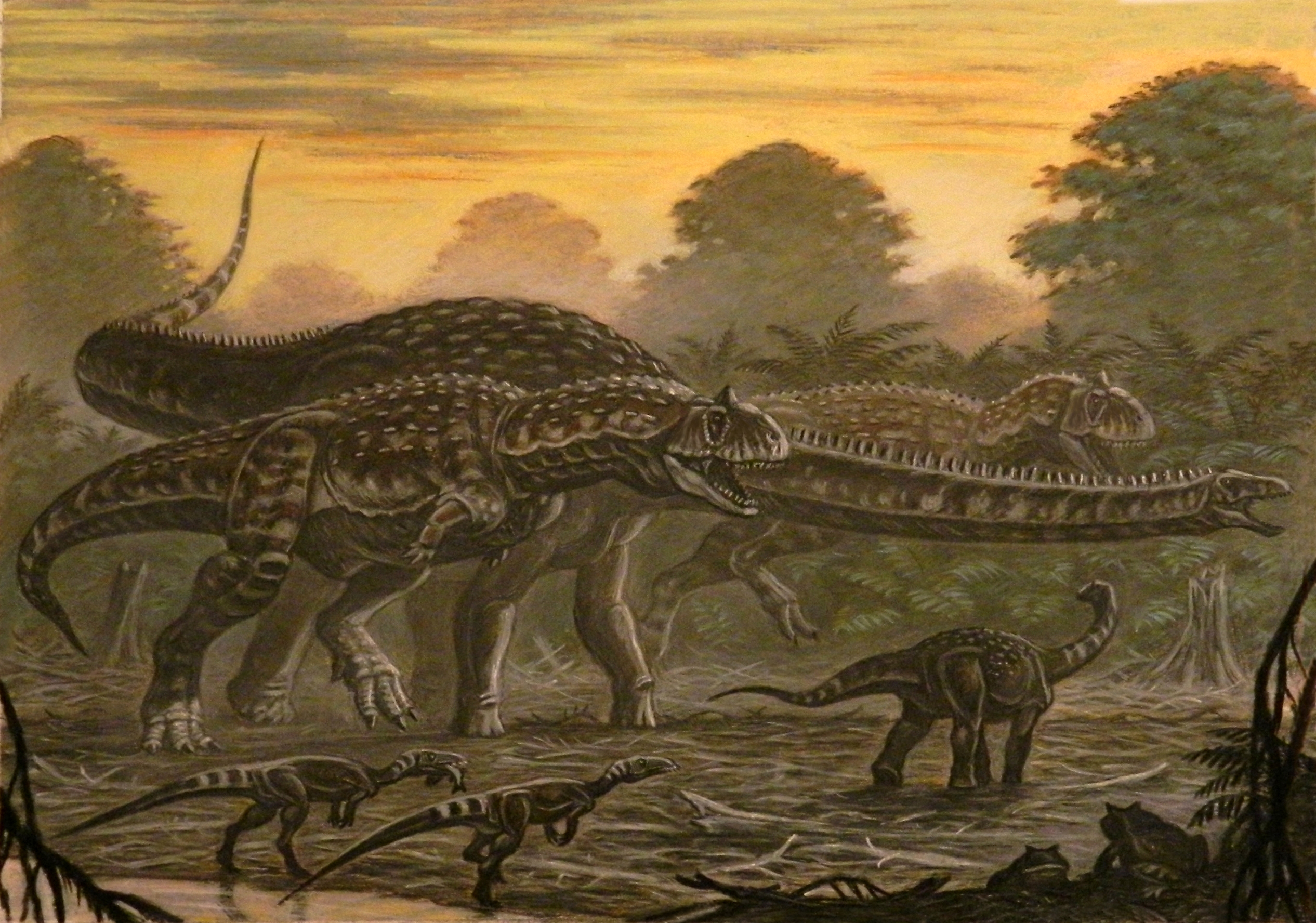 Two Majungasaurus chasing Rapetosaurus, with Masiakasaurus in the foreground.